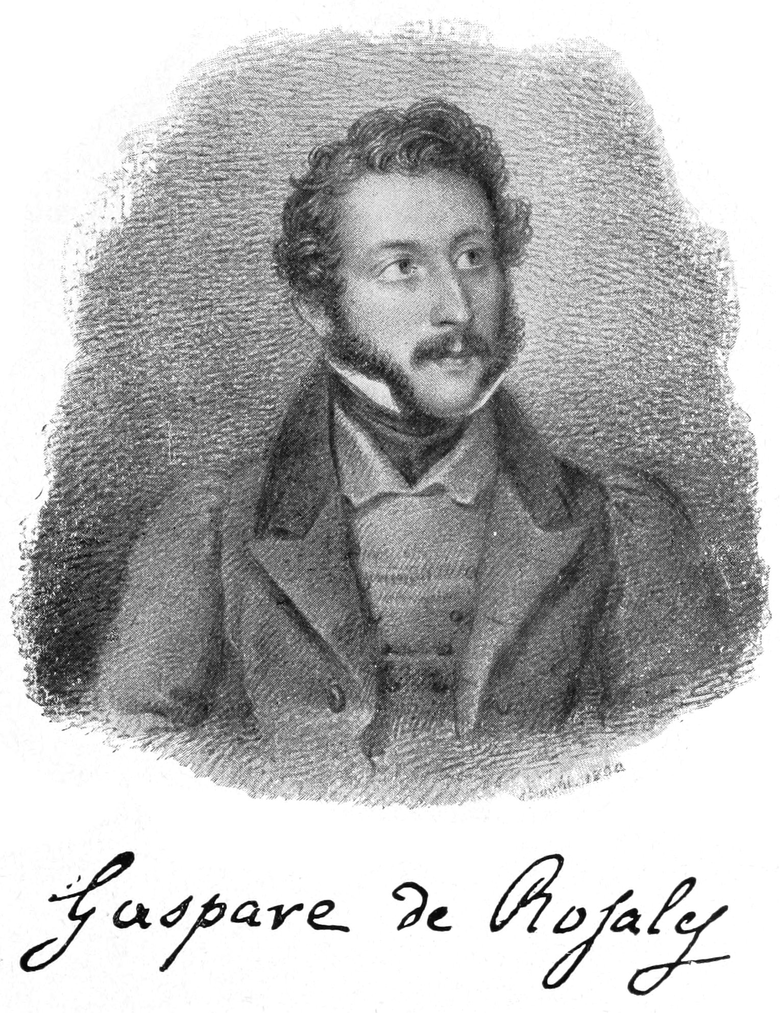 Image from book: Leopoldo Pullè, Patria Esercito Re, Ulrico Hoepli, Milan, 1908.